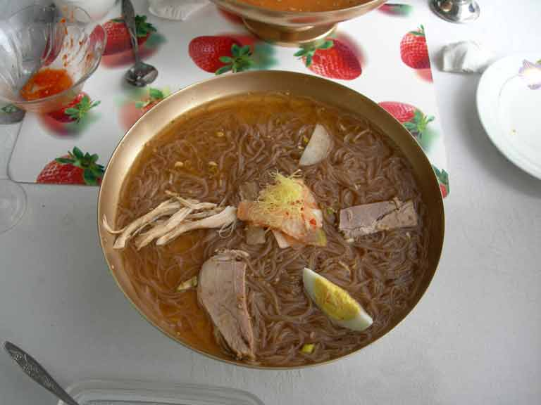 Korean Buckwheat noodle (Rengmyun/Nengmyun) served in Okryugwan(Ongnyugwan) Restaurant in Pyongyang, DPRK. This is 100g version of Chaengban Kuksu (Noodle in a flat plate).